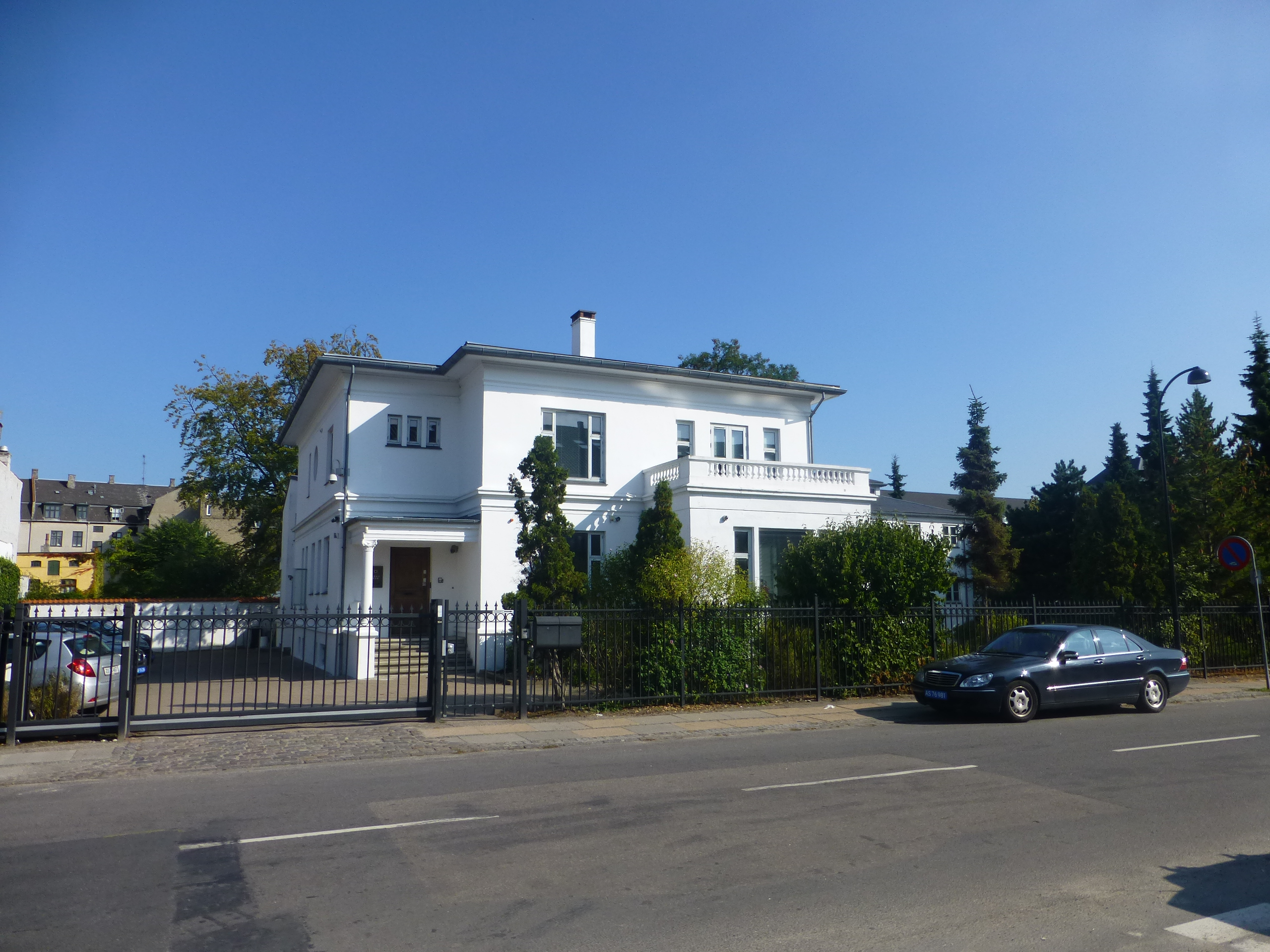 Embassy of South Korea at Svanemøllevej in Hellerup in Copenhagen.